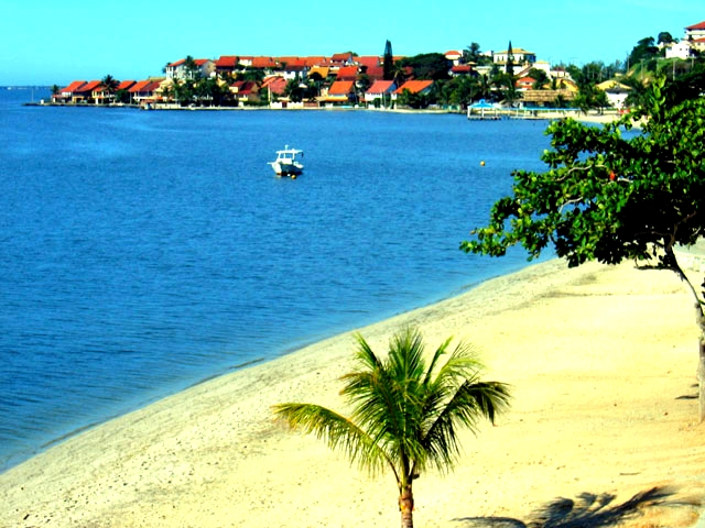 city of iguaba grande - rio de janeiro - brazil